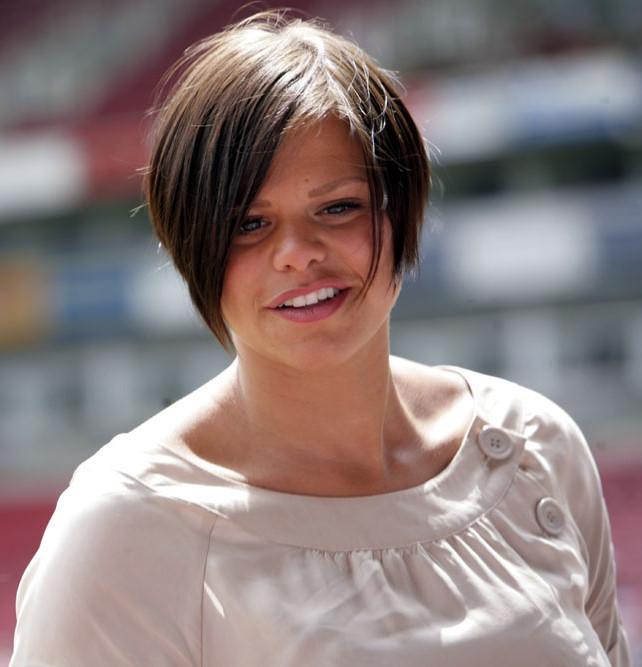 Jade Goody, in happier times, at Soccer Six Music Industry charity football event at Upton Park stadium in London.